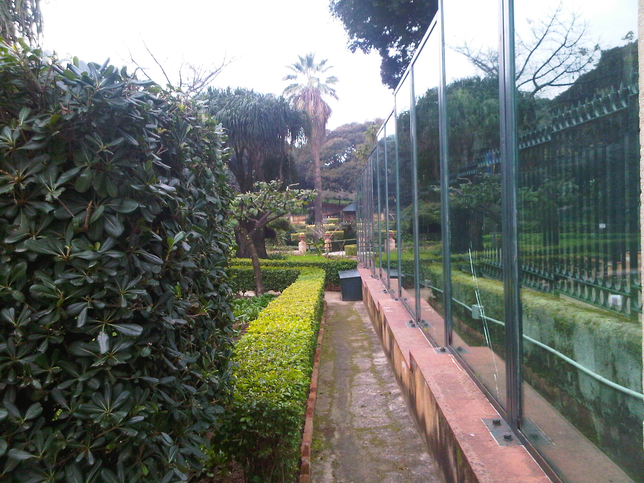 Parco d'Orleans, Palermo, Sicily